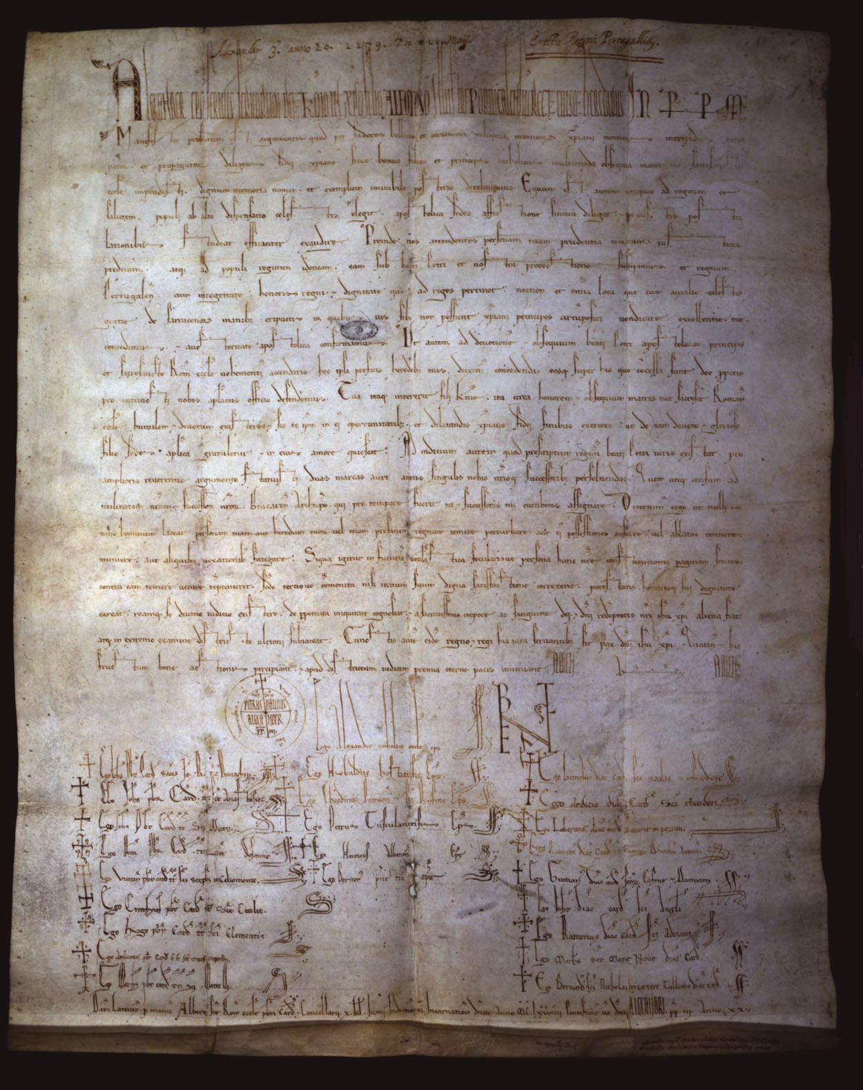 The papal bull Manifestis Probatum